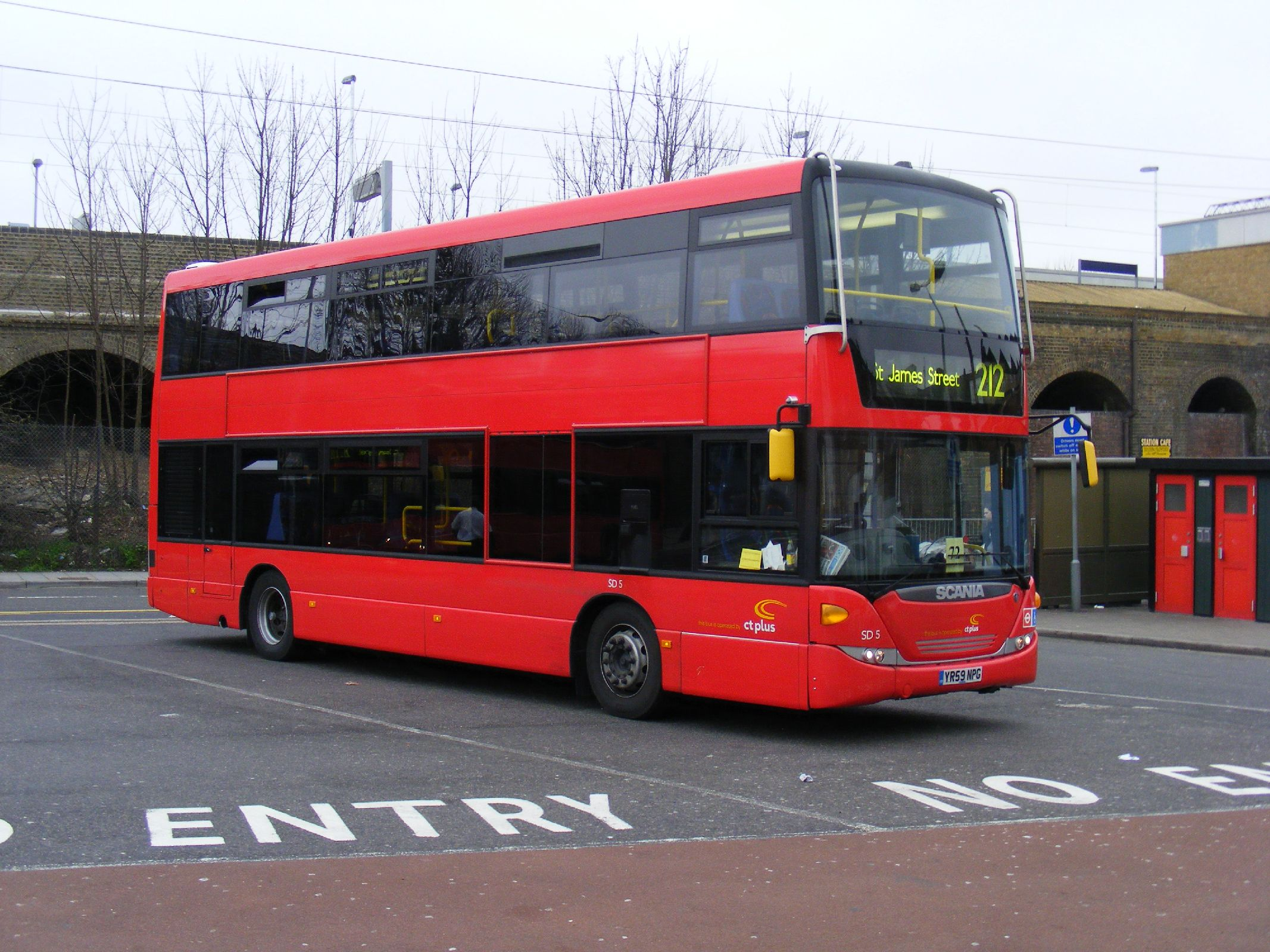 Formerly operated until recently by First London.